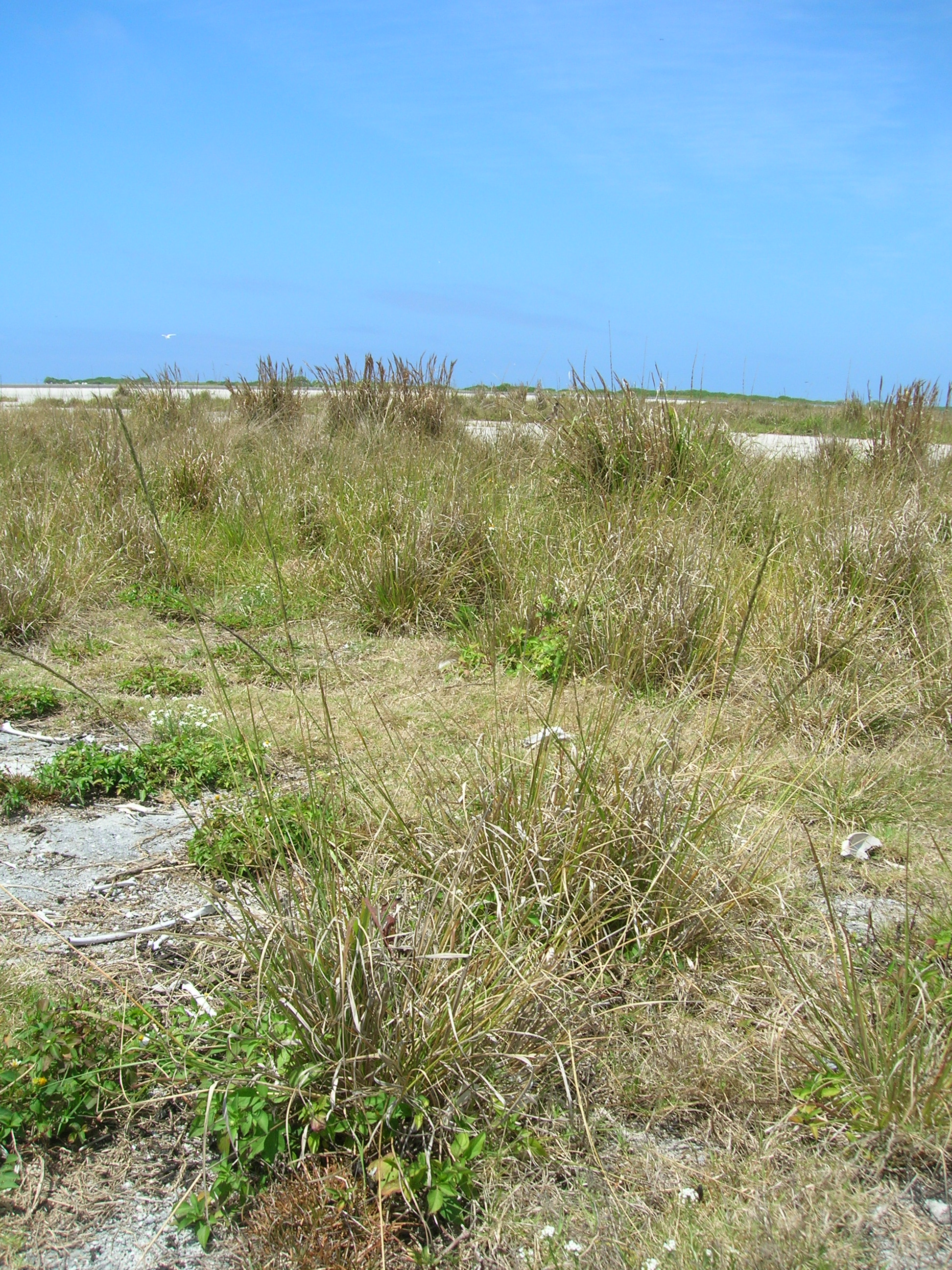 Sporobolus indicus (habit). Location: Midway Atoll, Runway overrun fields Sand Island